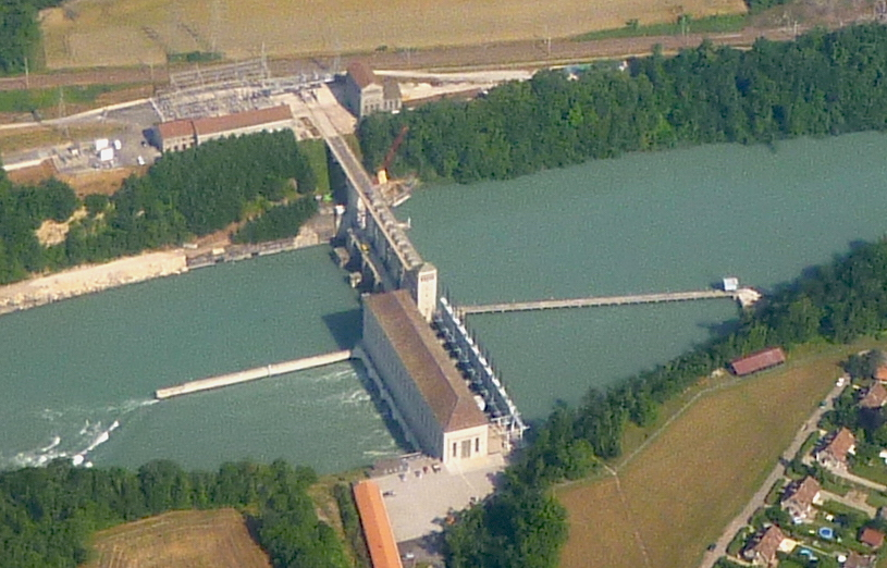 Hydroelectricity plant 'Chancy-Pougny' at the Rhone. Clipping from image uploaded by Flominator on 30.6.2010.